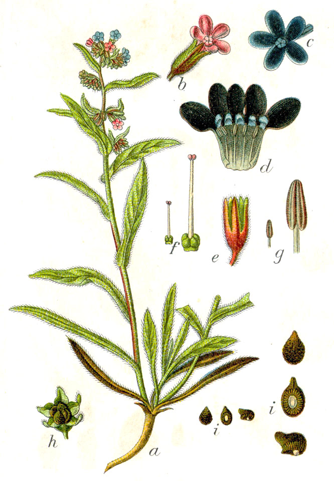 Anchusa officinalis L. Original Caption Echte Ochsenzunge, Anchusa officinalis